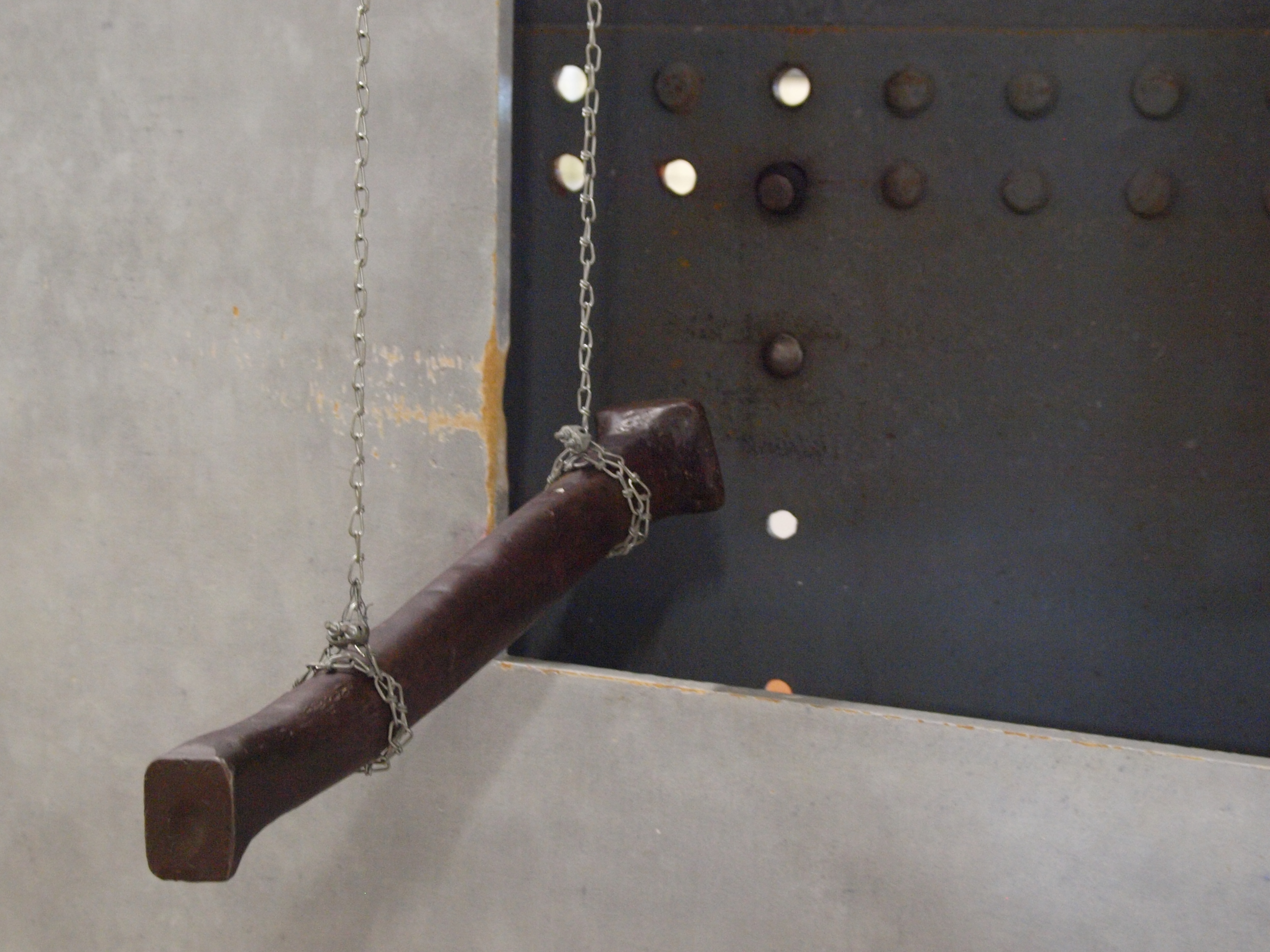 Rivets tool in steel ship building. Mounted on chains for demonstration purposes. Photographed at Industriemuseum Elmshorn, Schleswig-Holstein, Germany